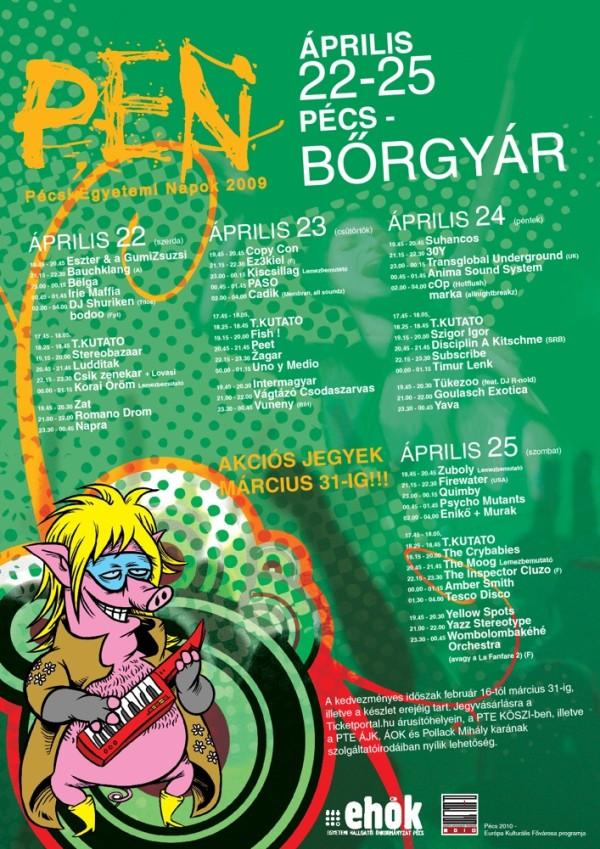 Flyer of PEN 2009 festival, Pécs, Hungary.